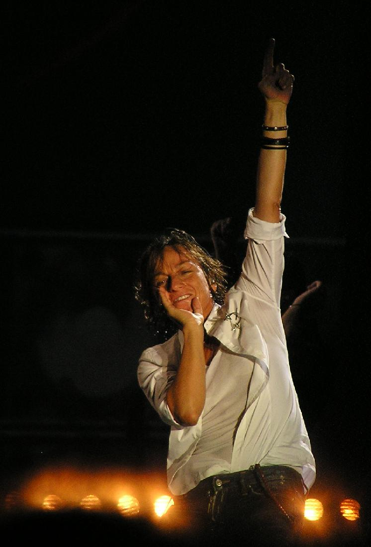 Gianna Nannini live at Villa Manin, Codroipo (Italy) in september 2008